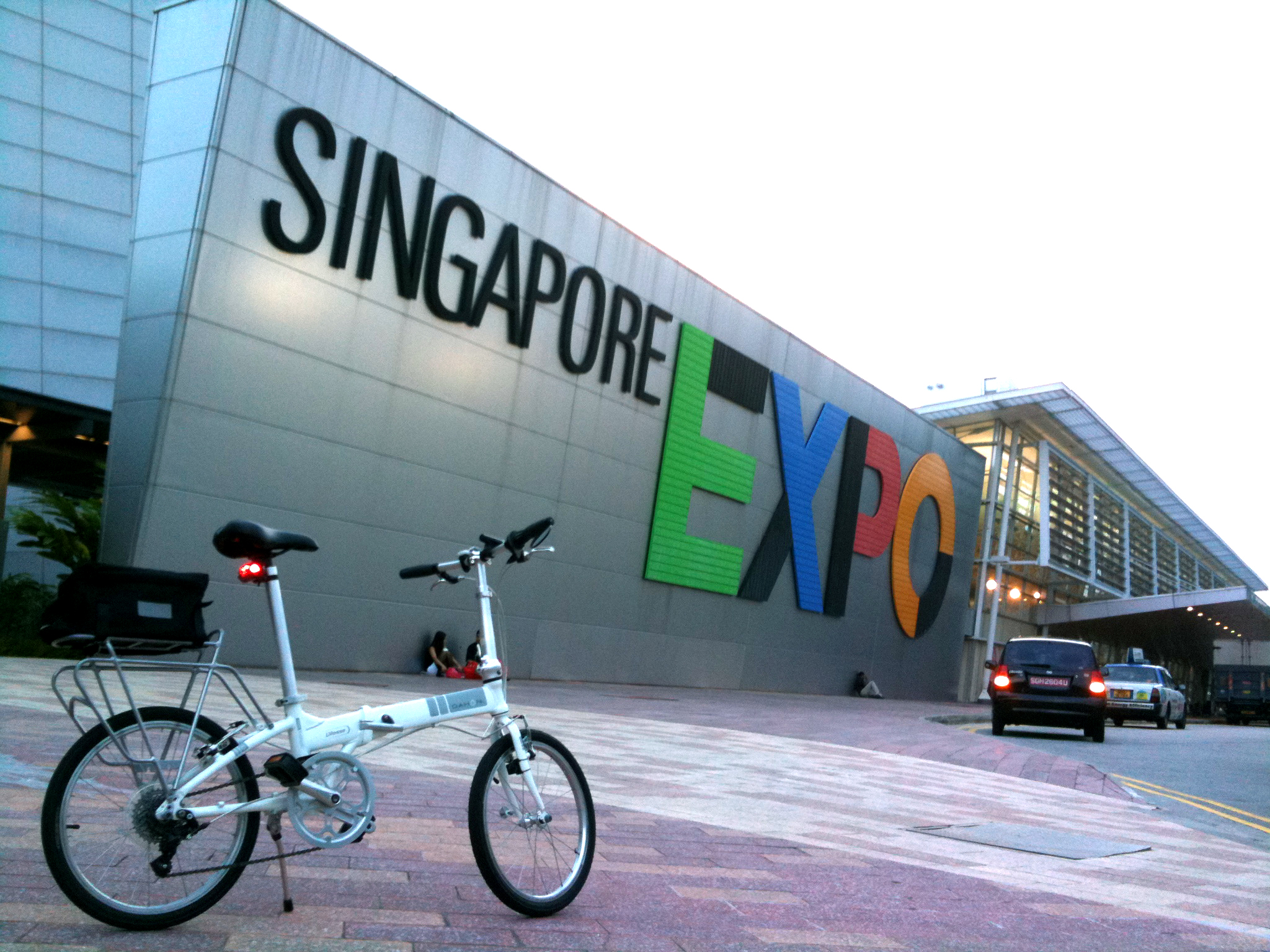 The Singapore Expo in 2009.